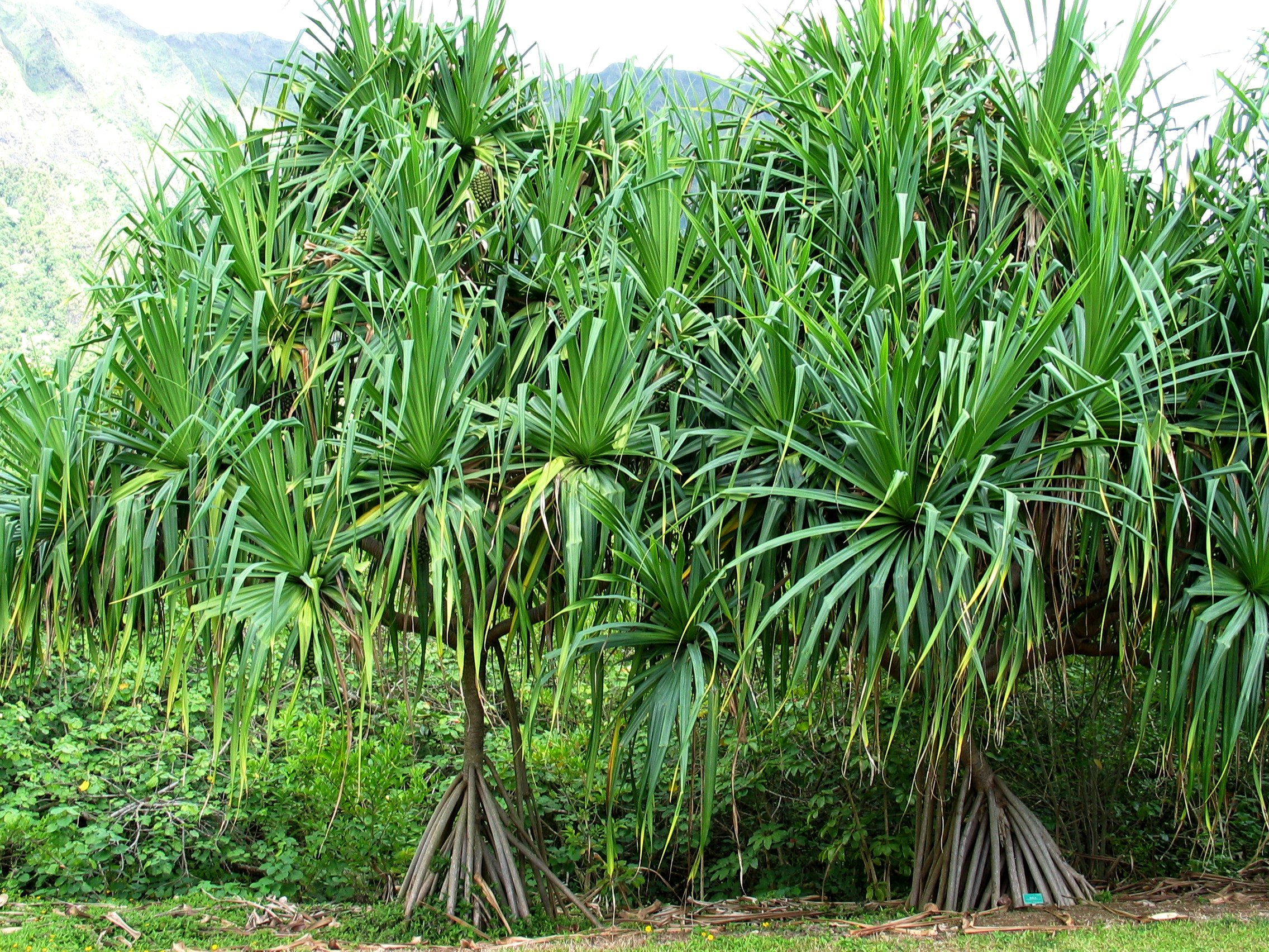 Hala or Screwpine Pandanaceae Indigenous to the Hawaiian Islands Hoʻomaluhia Botanical Garden, Oʻahu The aerial root tips called "scales," were pounded, juice strained and heated by early Hawaiians. They were mixed with eucalyptus in a pūloʻuloʻu (steam bath) to treat colds. A mixture of aerial roots with kō (sugar cane) and other plants was used as a tonic for mothers weakened by child birth. The mixture was also given for chest pains. When mixed with other plants, the roots were used in urinary tract infections, low energy and red eyes. The tips are said to be rich in vitamin B. The keys (fruits) of the form hala pia were used medicinally. NPH00004